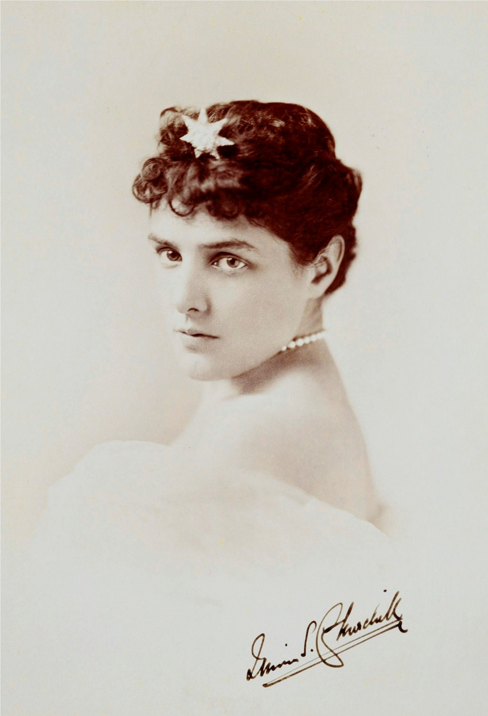 Jennie Churchill, née Jeanette Jerome, formally Lady Randolph Churchill (born 9 January 1854, Brooklyn, New York, Union States of America and died 29 June 1921, London, England), American society figure, is the wife of Lord Randolph Churchill and the mother of British Prime Minister Sir Winston Churchill. Jennie Jerome married 15 April 1874 at the Embassy of Great Britain and Ireland rue du Faubourg Saint-Honoré in Paris in the 8th arrondissement, with Lord Randolph Churchill (1849-1895), third son of John Spencer-Churchill, 7th Duke of Marlborough. The photograph is signed by the model.